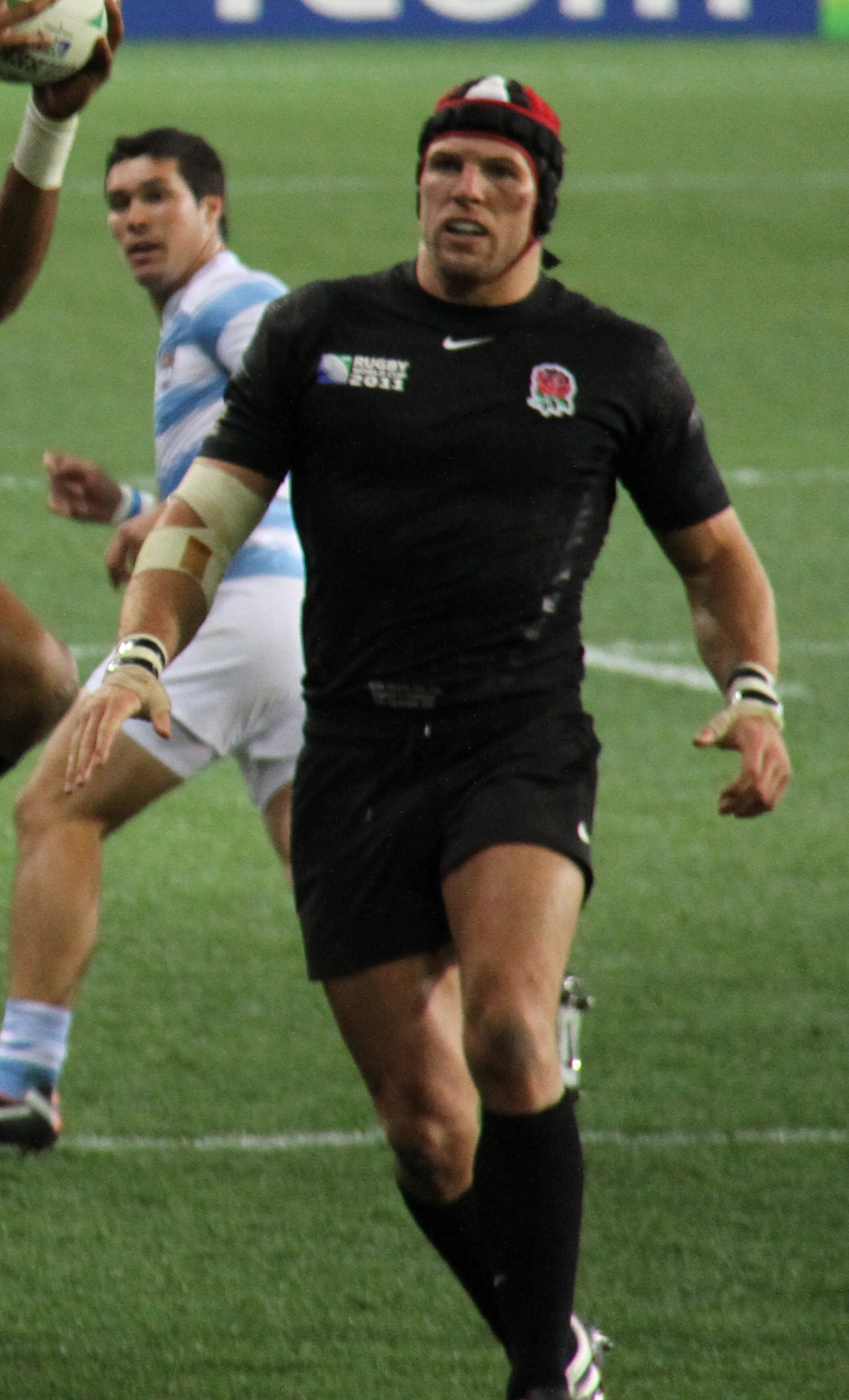 England rugby union player James Haskell at the 2011 Rugby World Cup during the stage match against Argentina